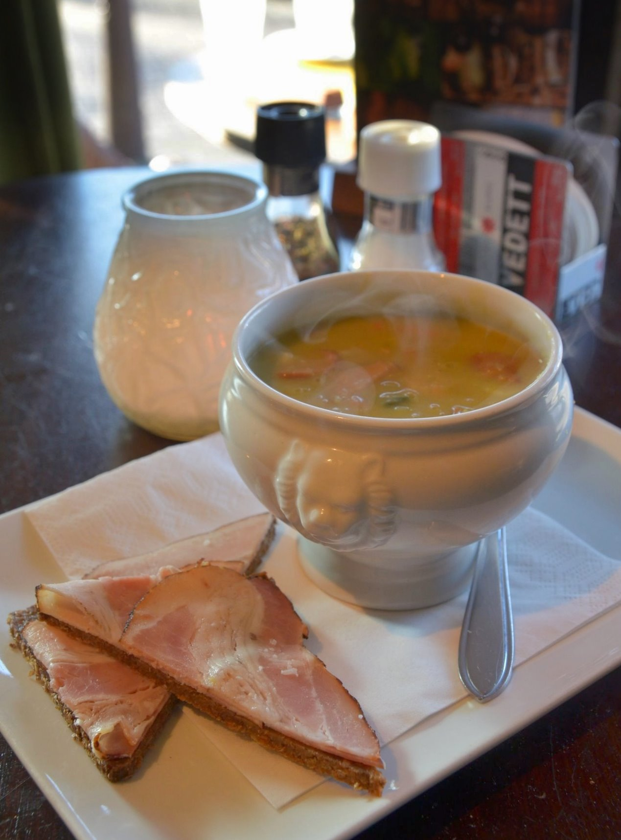 'Erwtensoep, roggebrood met katenspek': Dutch for "pea soup, rye bread with smoked bacon"; it is a traditional combination in the Netherlands